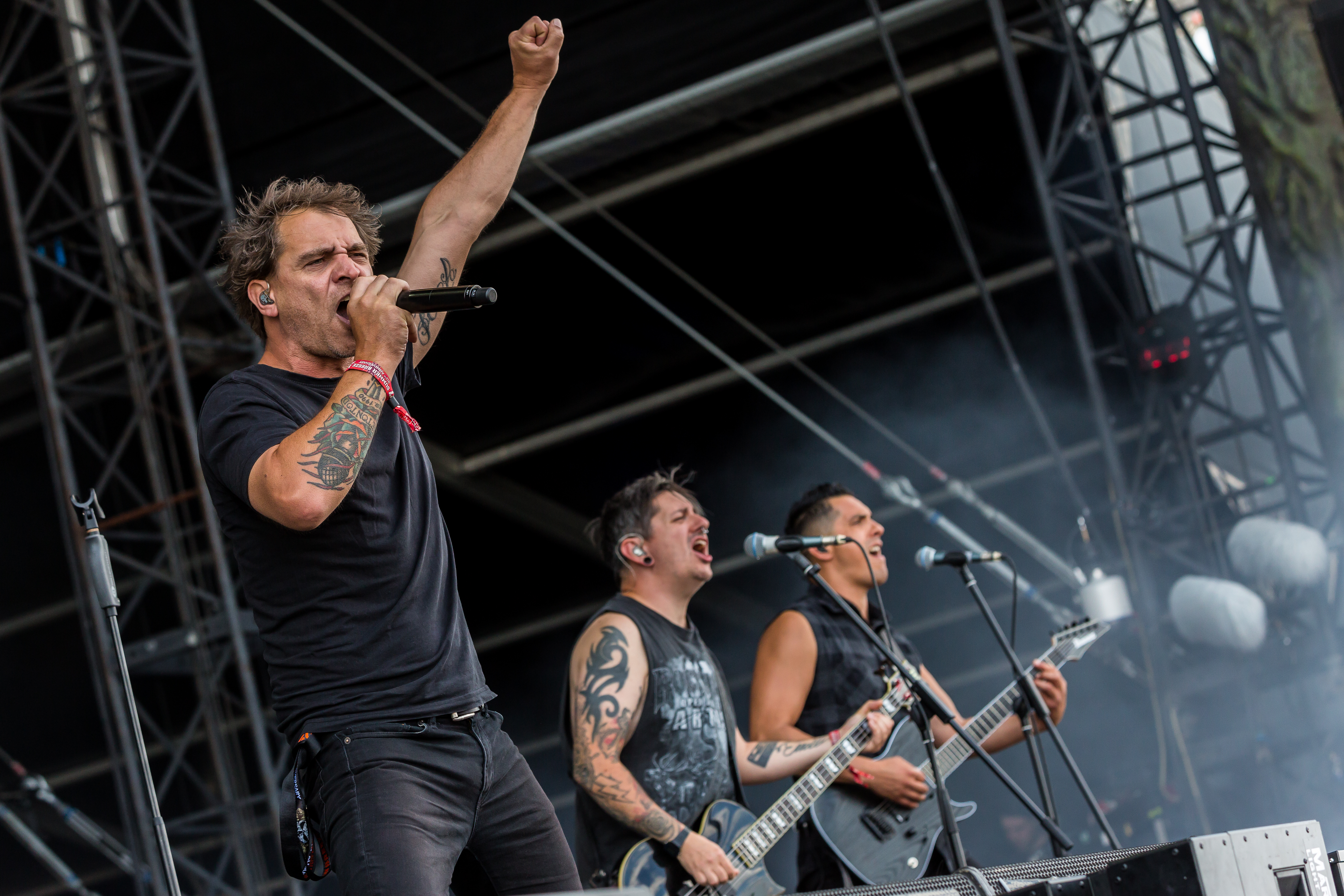 The German punk rock band Betontod at the Summer Breeze Open Air 2017 in Dinkelsbühl/Germany.